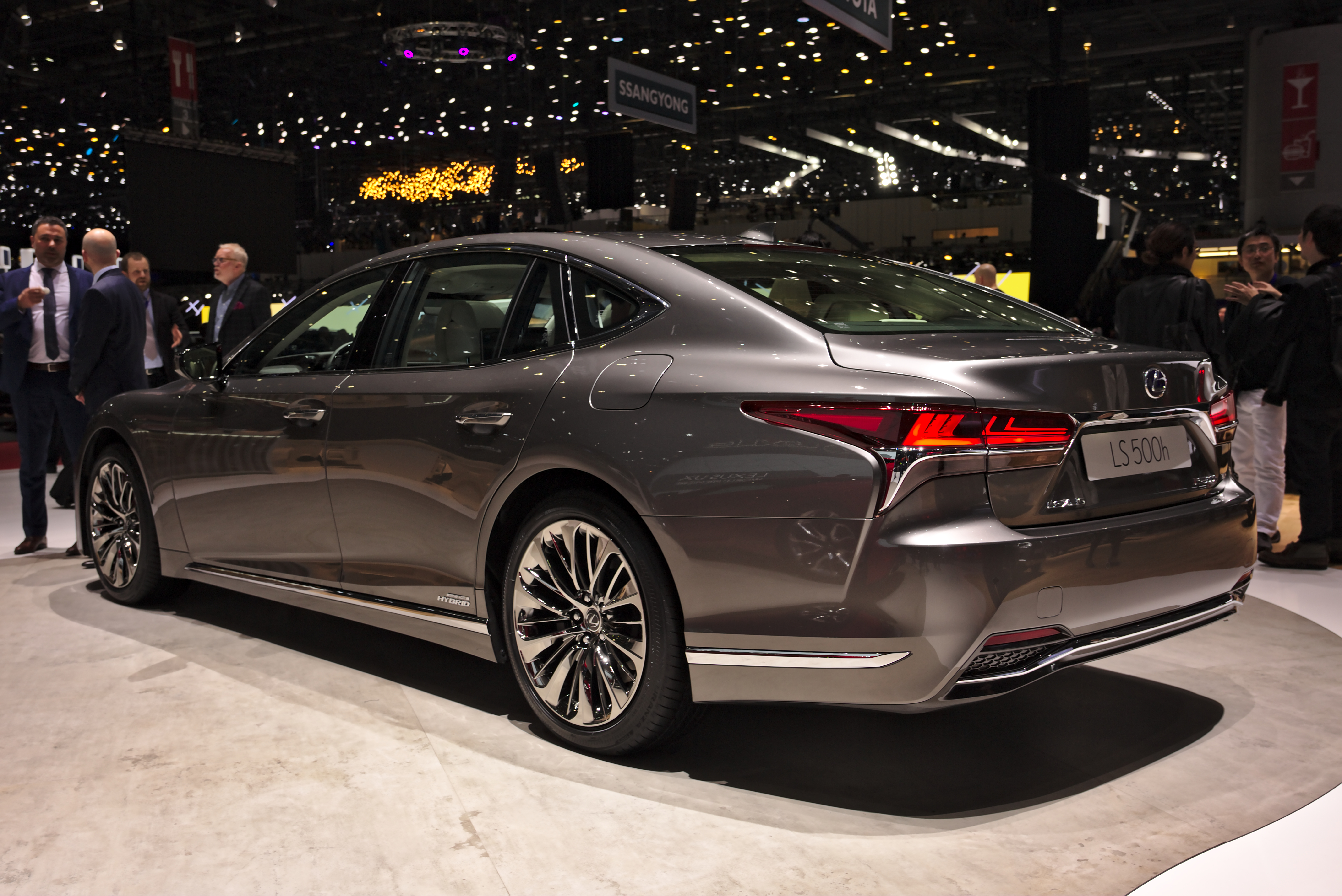 Lexus LS 500h at Geneva Motorshow 2018